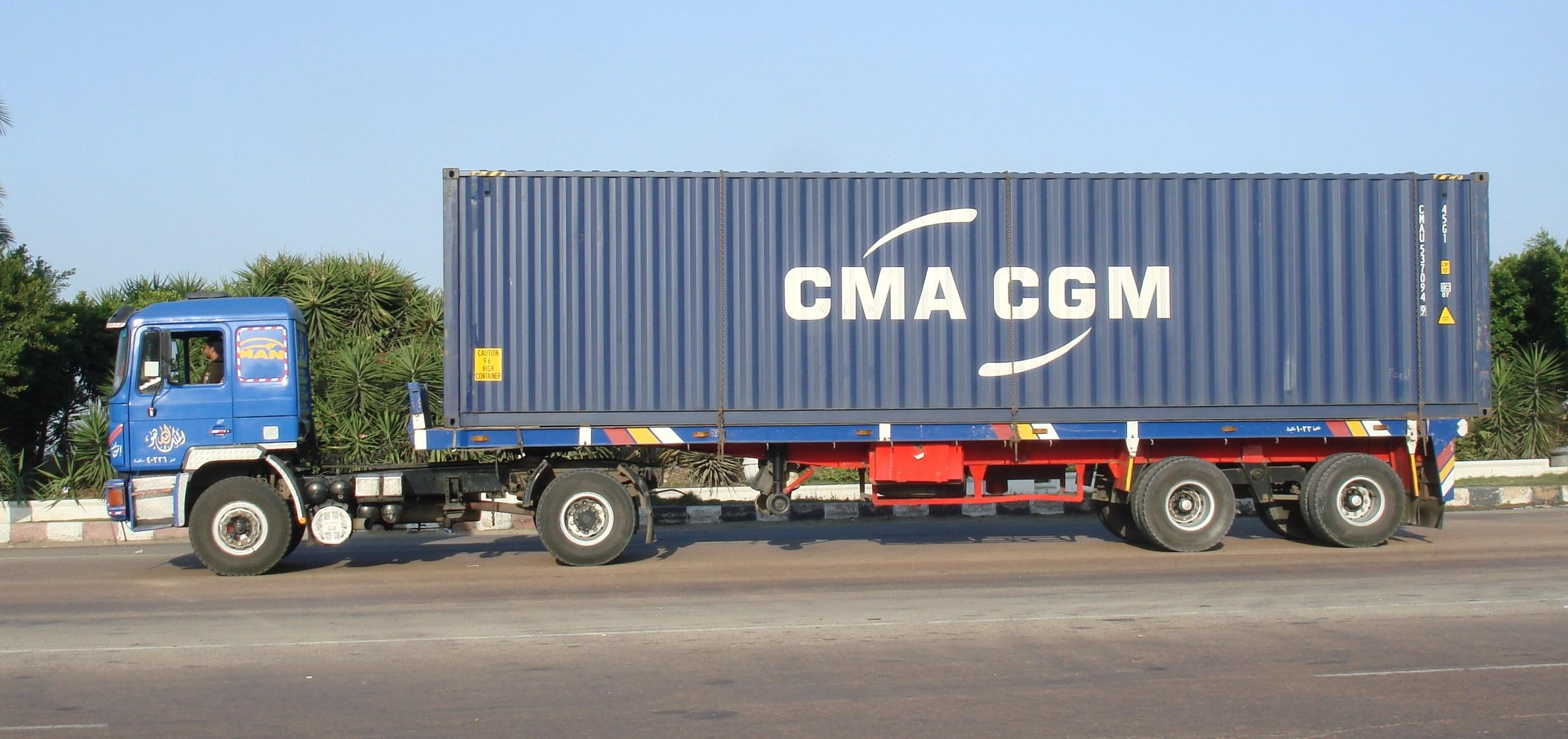 CMA CGM container loaded on a truck to be delivered to ALexandria port, Egypt